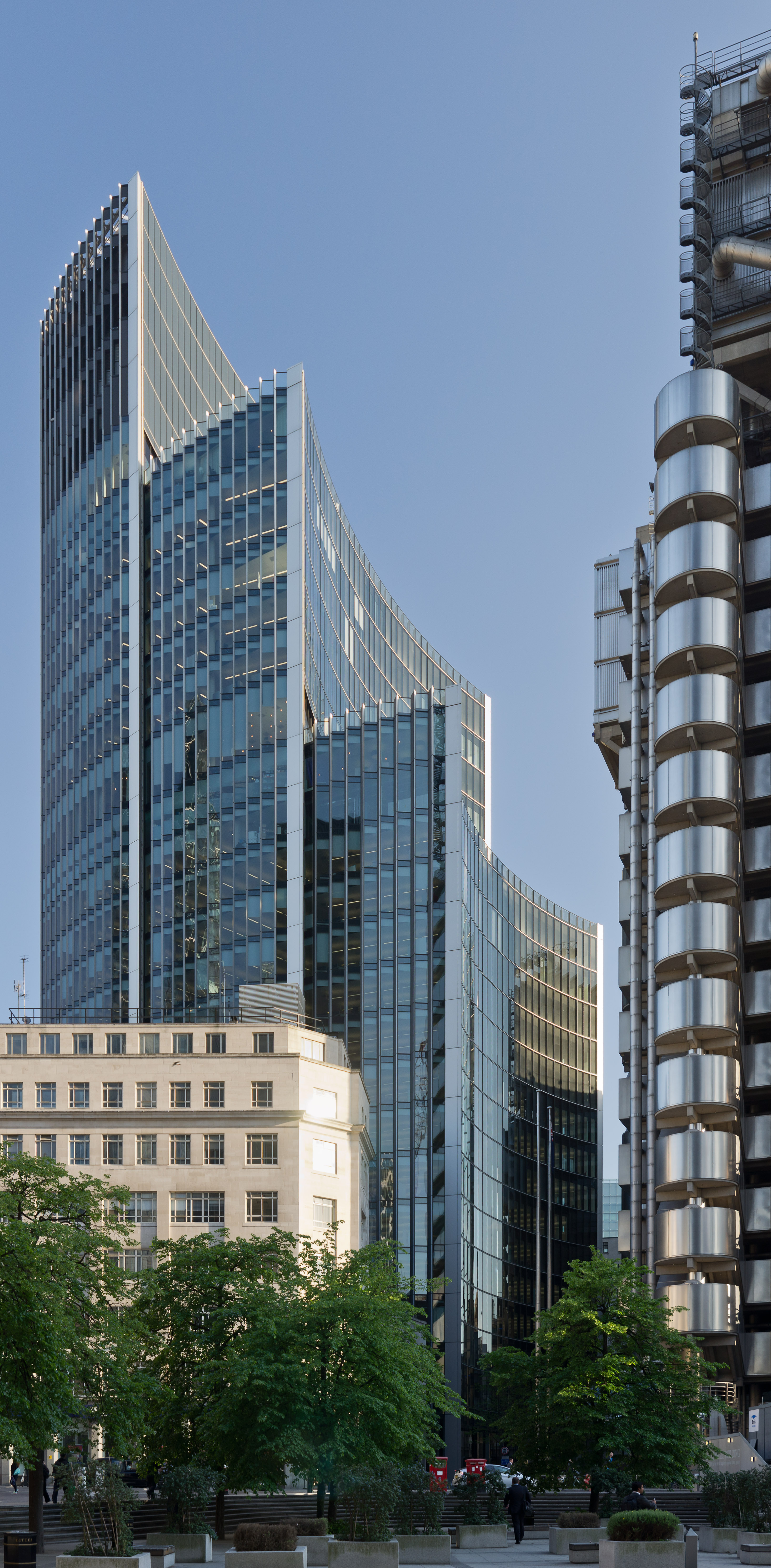 The Willis Building in the City of London. The edge of the Lloyd's building is on the right hand side. Photo taken from St Mary Axe.This image is a vertical panorama of five originals. These were stitched together with Hugin, which also corrected the perspective.